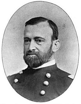 from Companions of the Military Order of the Loyal Legion of the United States - An Album Containing Portraits of Members of the Military Order of the Loyal Legion of the United States, L. R. Hamersly Co., New York, 1901, page 47.